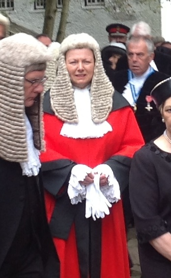 The Legal Service for Wales at Llandaff Cathedral. 13 October 2013. The judge in the red robes is the Recorder of Cardiff, Her Honour Judge Eleri Rees.